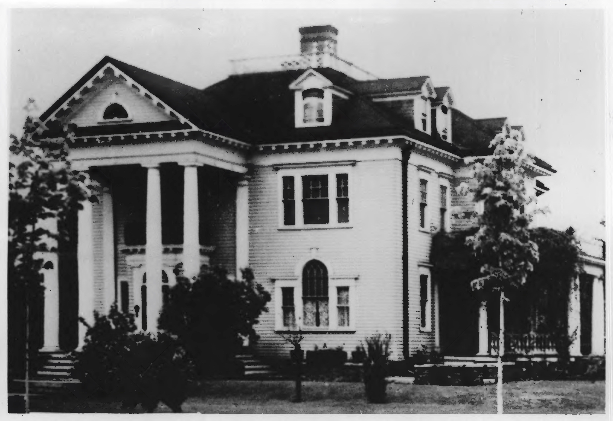 Collection card from reads: John R. Toole Home Missoula, Mt. Missoula County John H. Toole Collection, Box 1266, Missoula, Mt. 59801 Photo taken 1910 N.E. view duplicate negative - Worden & Co. Box 3881 Msla, Mt.